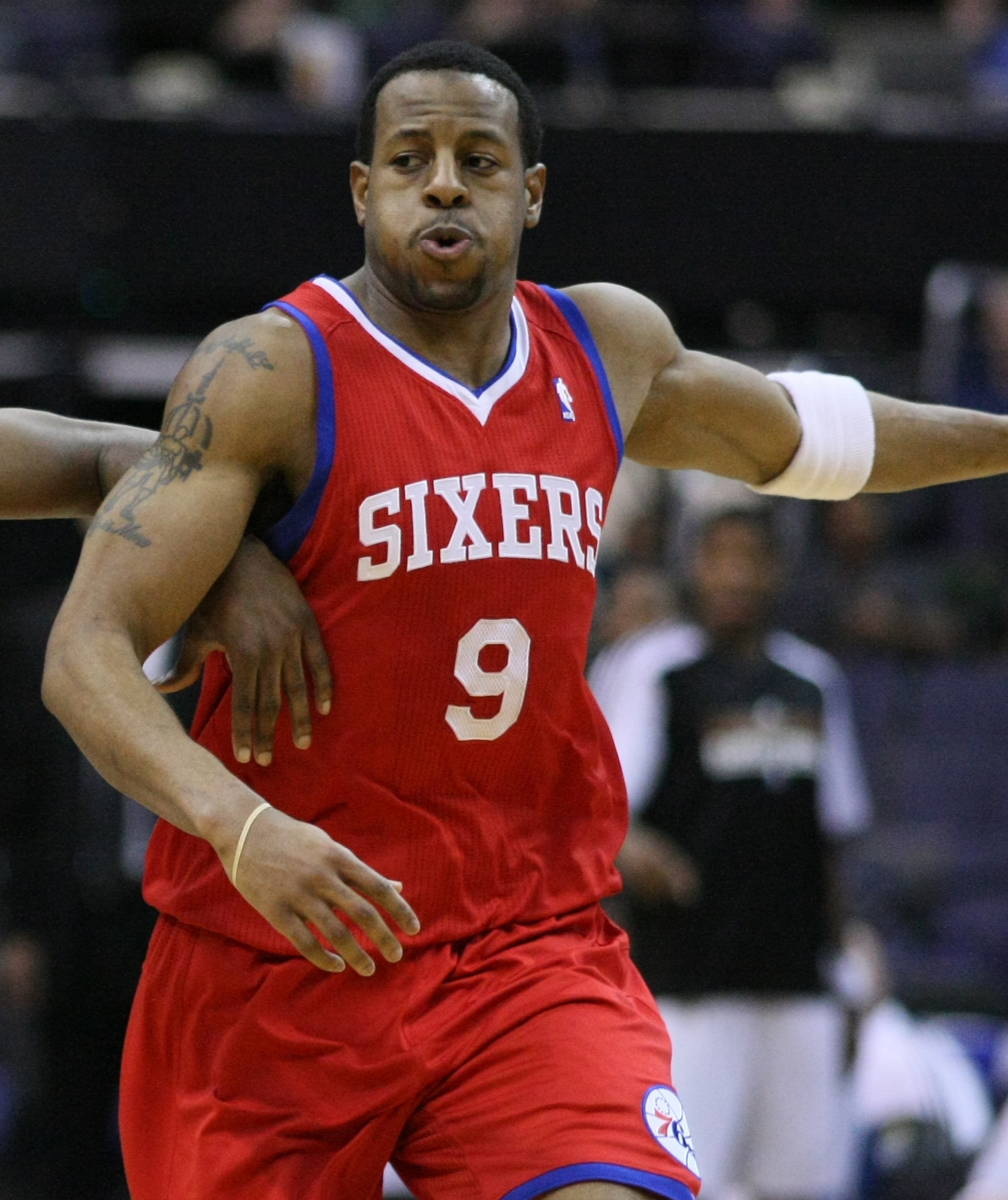 Andre Iguodala on November 23, 2010